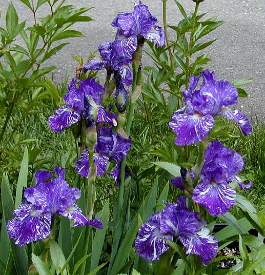 tall Bearded Iris - Batak